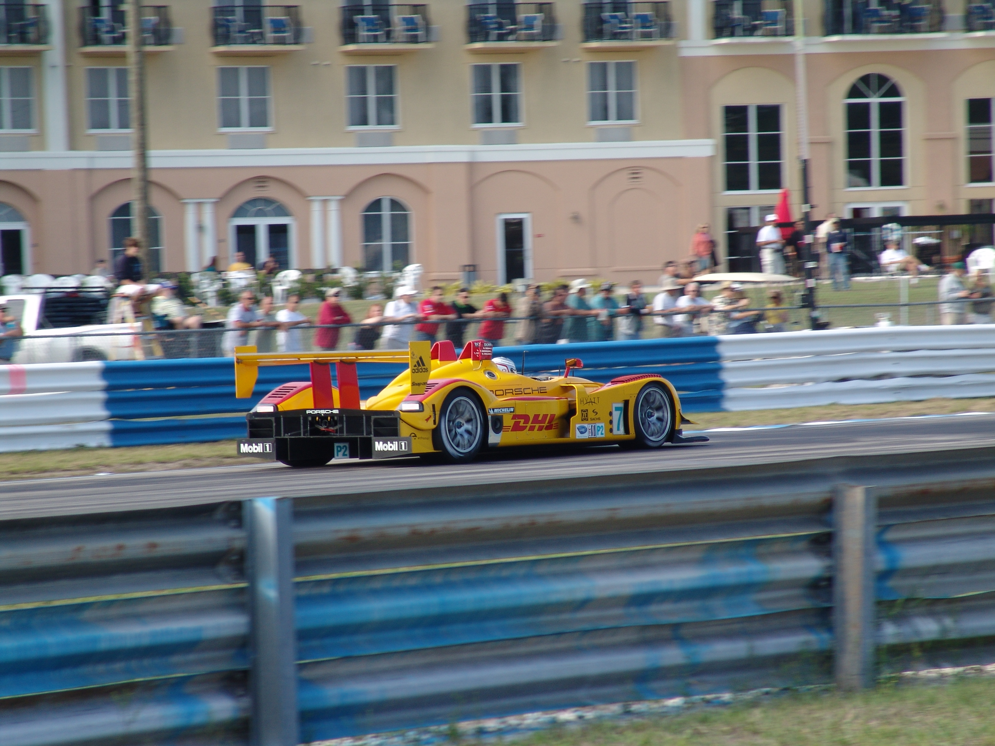 Overall 2008 12 Hours of Sebring winner entering the hairpin turn